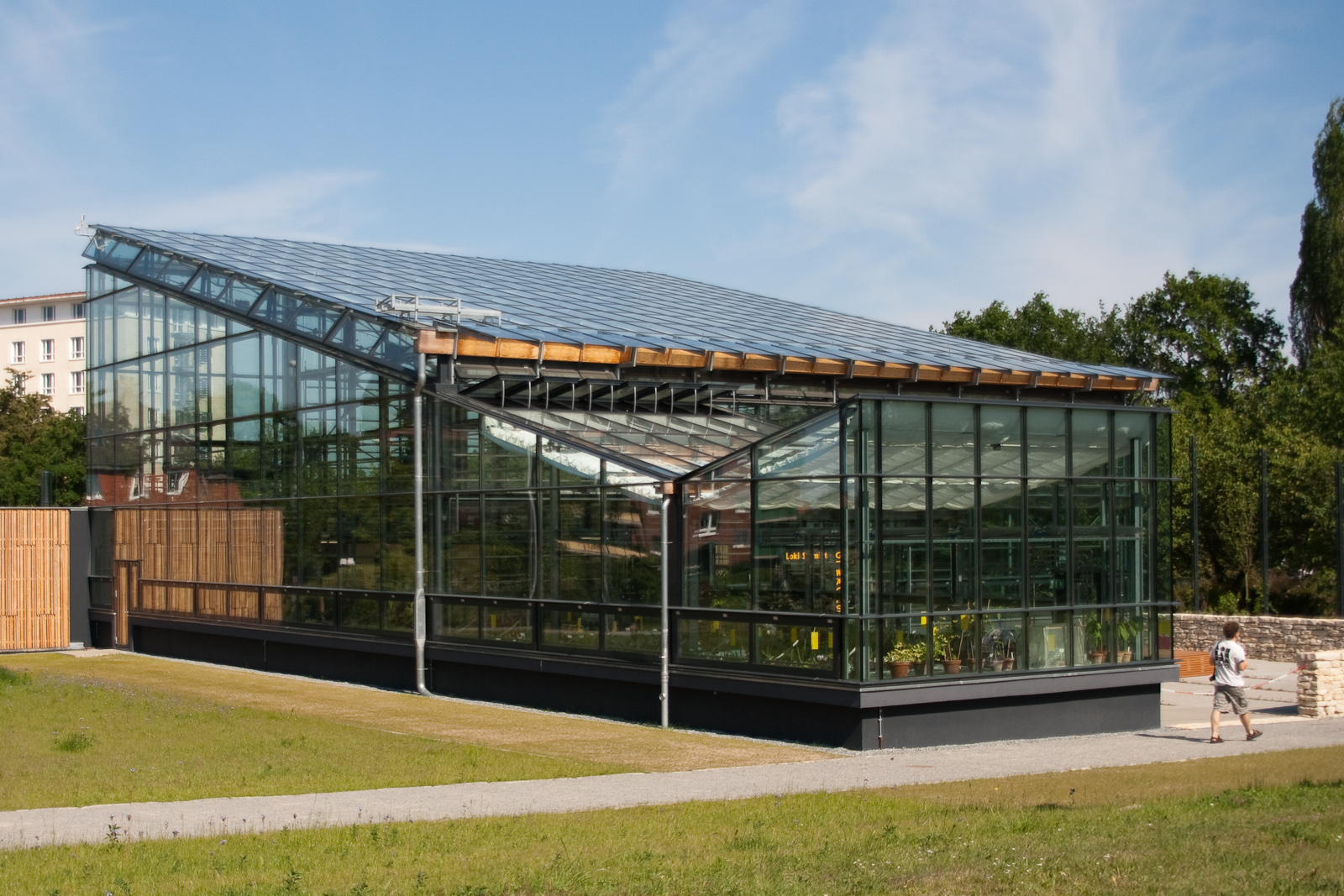 greenhouse "Loki Schmidt" (back) in botanical garden of university of Rostock with butterfly roof (front of the picture) and monopitch roof.